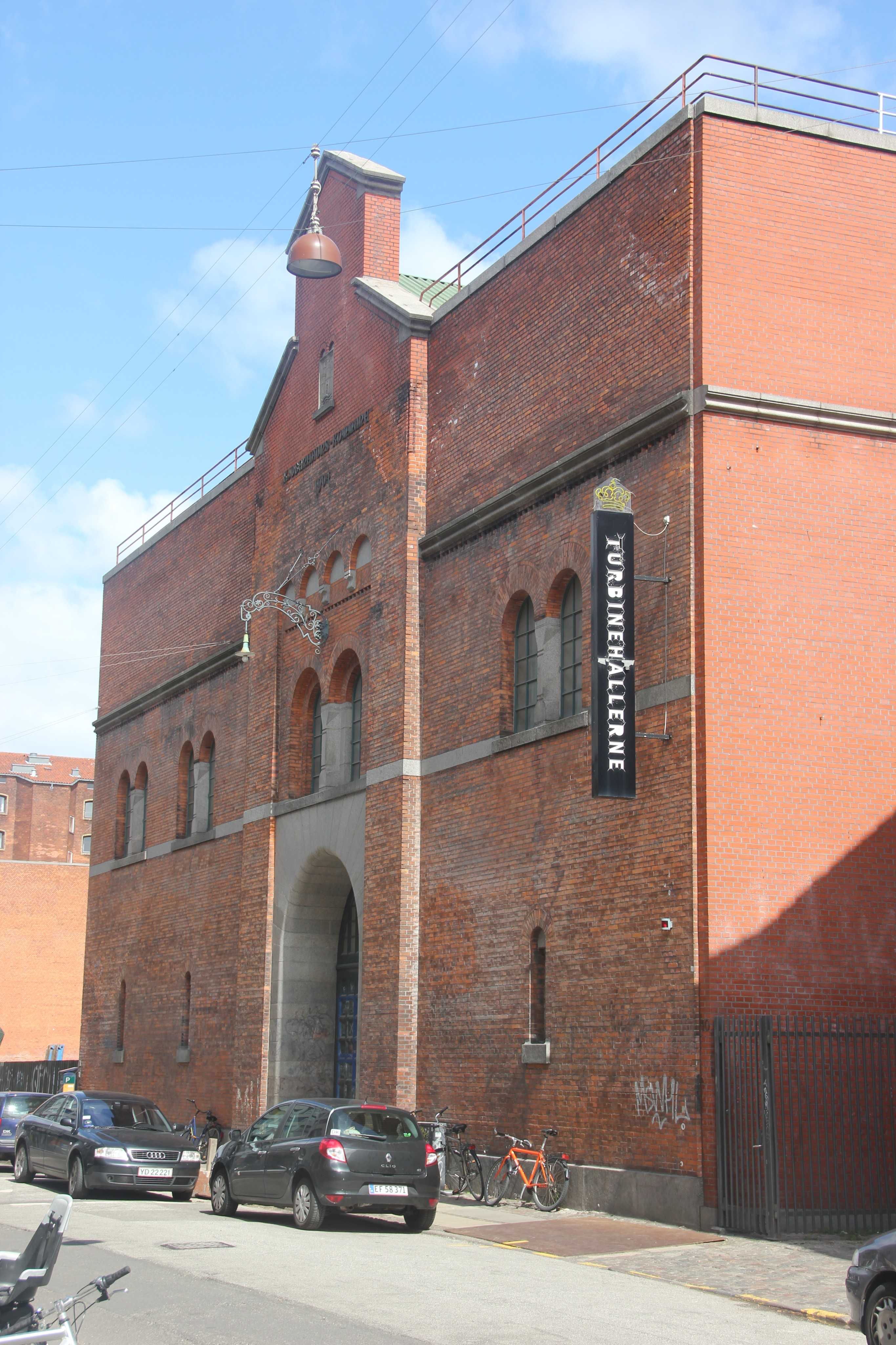 Turbinehallerne at 10 Adelgade in central Copenhagen, Denmark. Built in 1904 as an annex to Gothersgade Power Station wgich had opened in 1892 as Denmark's first electricity plant.